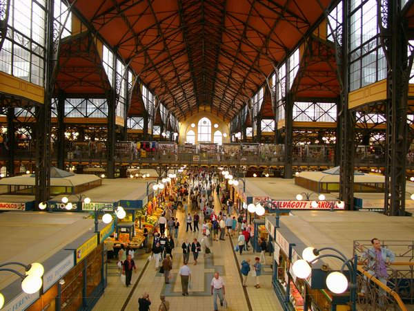 Grand Market Hall in Budapest, Hungary